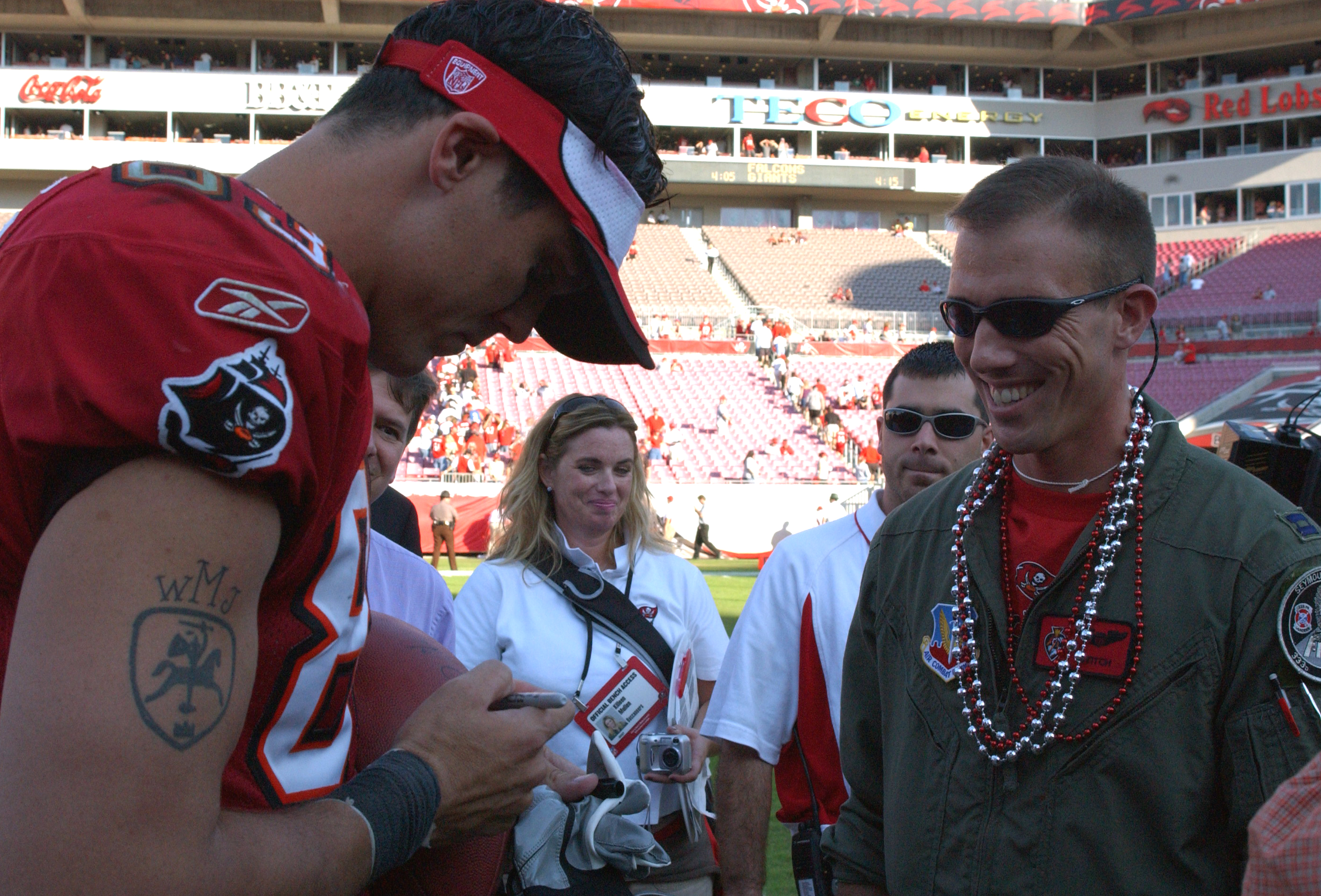 TAMPA, Fla. -- Tampa Bay Buccaneers wide receiver Joe Jurevicius autographs a game ball for Capt. Ryan Silver, a pilot from the 89th Flying Training Squadron at Sheppard Air Force Base, Texas. Captain Silver was part of the ground control team that guided a flyover that his twin brother, Capt. Bryce Silver led over the stadium here during the opening ceremony. The brother is assigned to the 333rd Fighter Squadron at Seymour Johnson AFB, N.C. (U.S. Air Force photo by 1st Lt. Elizabeth Kreft)